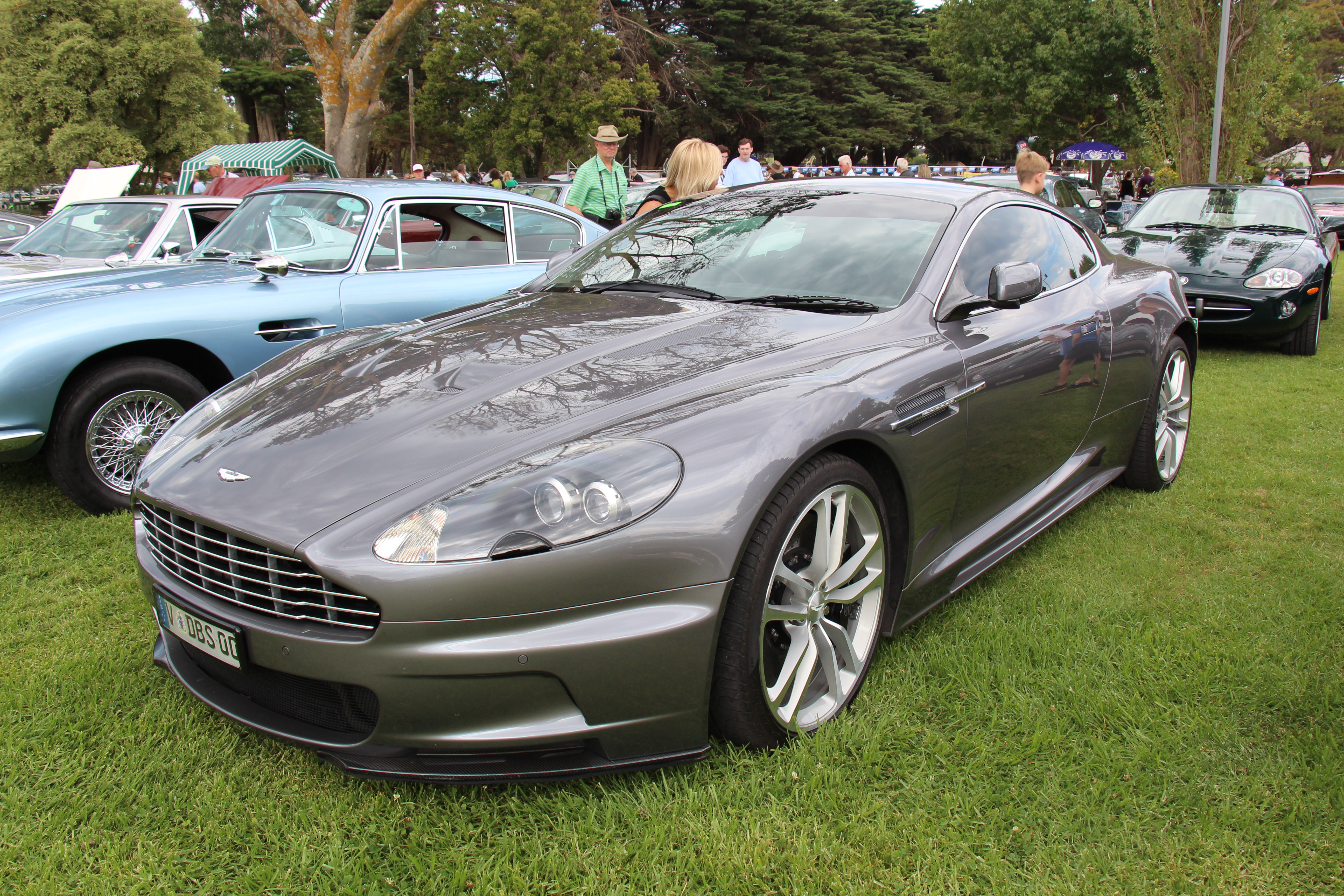 Aston Martin always made luxury sports cars. The DBS, introduced in 2007 is the high performance, flagship DB9., just about be the best looking car produced today To keep the weight as low as possible, Aston Martin has made extensive use of carbon fibre; the bonnet, boot and front wings The roof and the doors are made of aluminium. The result is a 30 kg weight reduction from a regular DB9. The car is also fitted with a carbon fibre splitter at the front wings to increase handling and a carbon fibre rear diffuser to increase high-speed stability Engine; 510hp 6.0 litre V12 shared with racing DBR9 and DBRS9